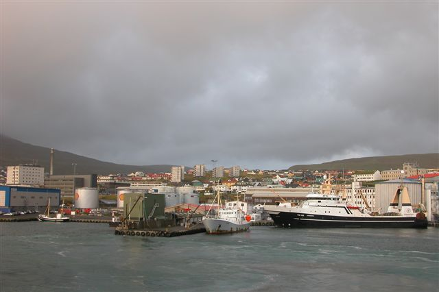 Harbour of Tórshavn